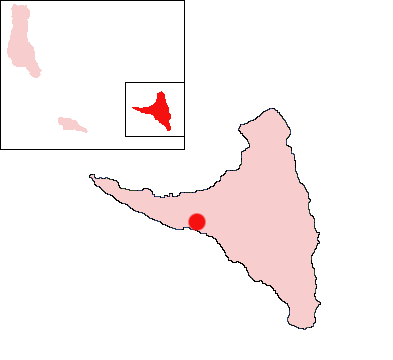 Dzindri, Anjouan, Comoros Location Map; created with the GIMP. Made by User:Acntx.